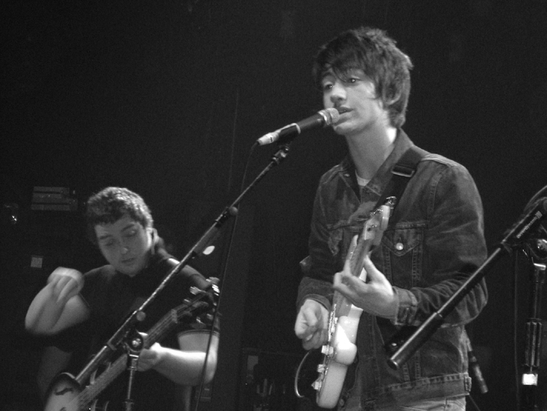 Arctic Monkeys @ NME Tour 2006 - Newcastle Academy 30/01/06